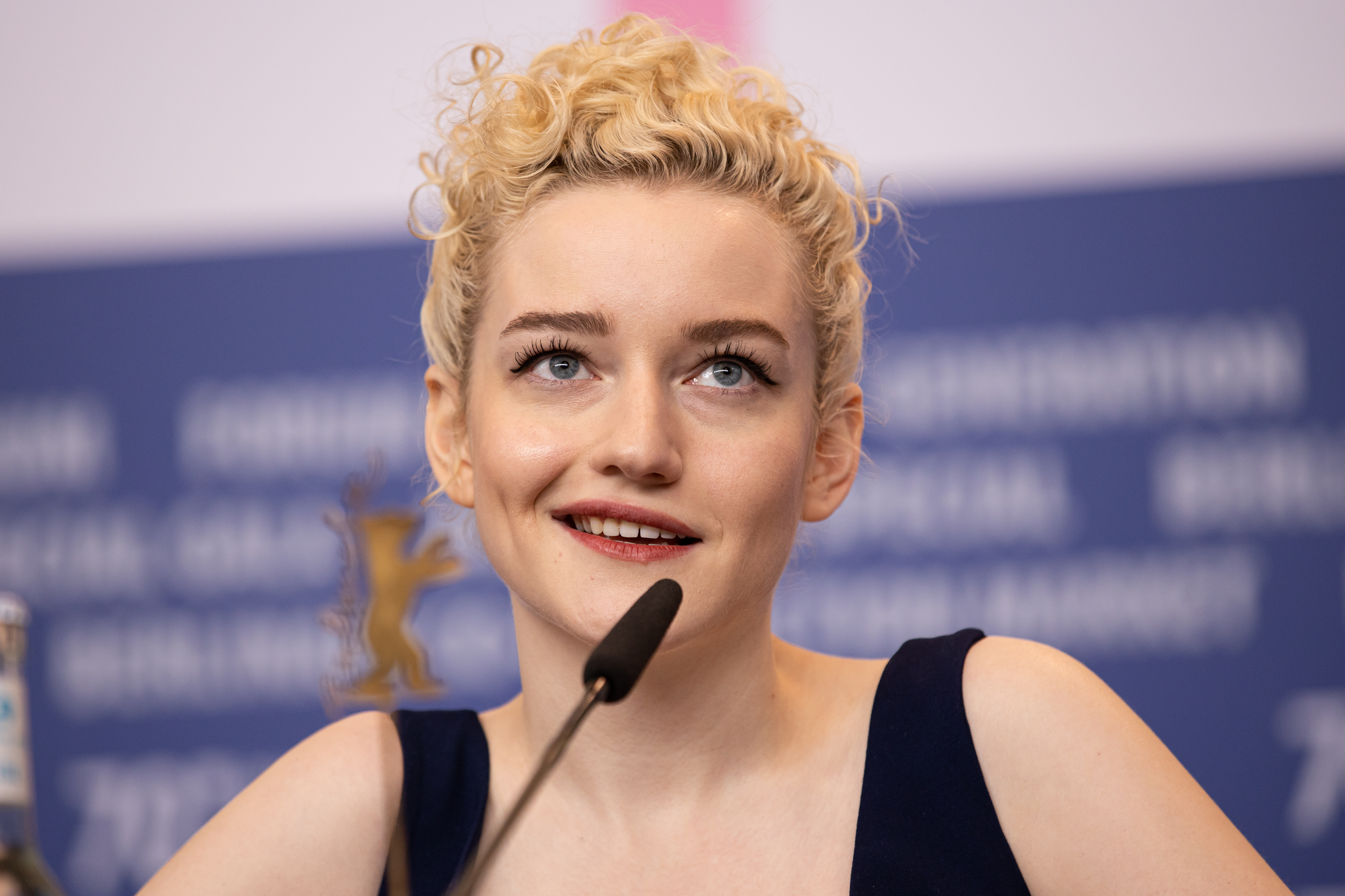 Actress Julia Garner at the Berlinale 2020